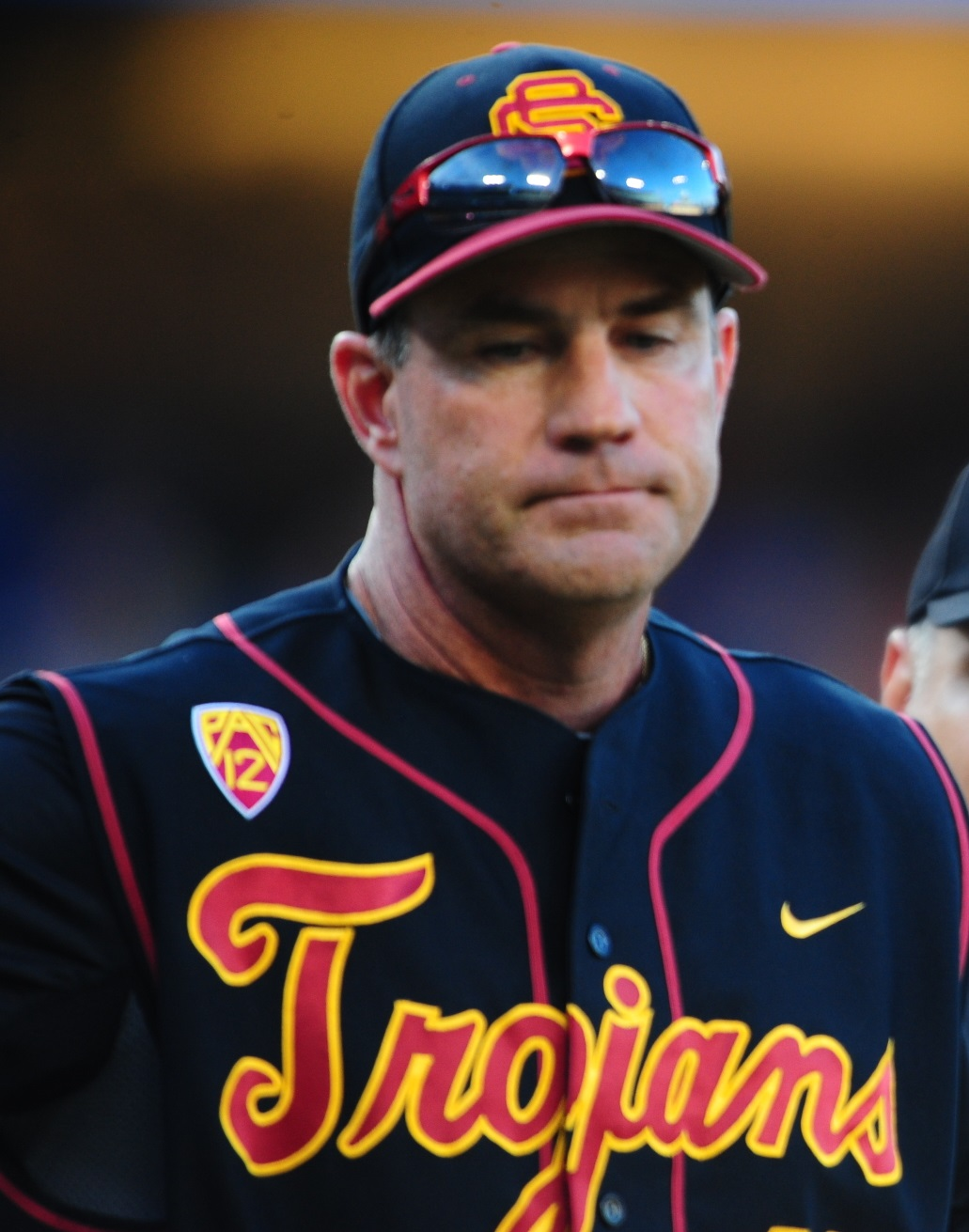 University of Southern California baseball coach Dan Hubbs during a game against the University of California, Los Angeles at Dodger Stadium on March 8, 2015.